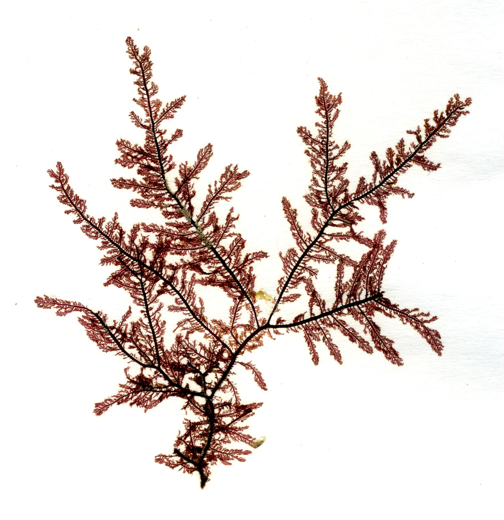 Plumaria elegans (Bonnem.) Schmitz = Plumaria plumosa (Hudson) Kuntze, herbarium sheet. Collected 1989-08-08, Heligoland (Germany)